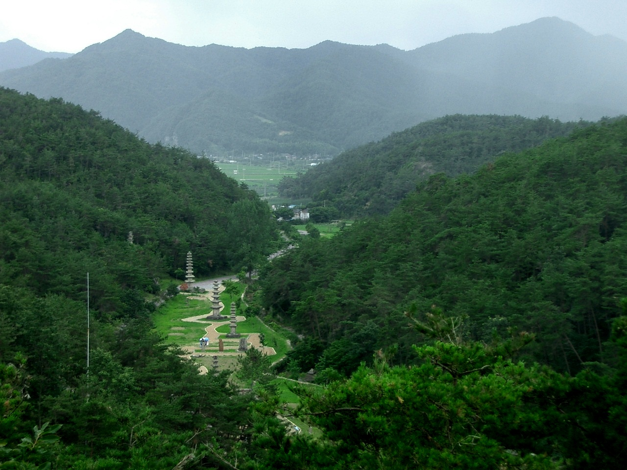 Unjusa (운주사) is a Buddhist temple in Hwasun County, South Jeolla province, South Korea. It reportedly dates to the Silla Dynasty period. The temple is most notable for its numerous carvings and pagodas, especially National Treasure No. 796, a nine-story pagoda.